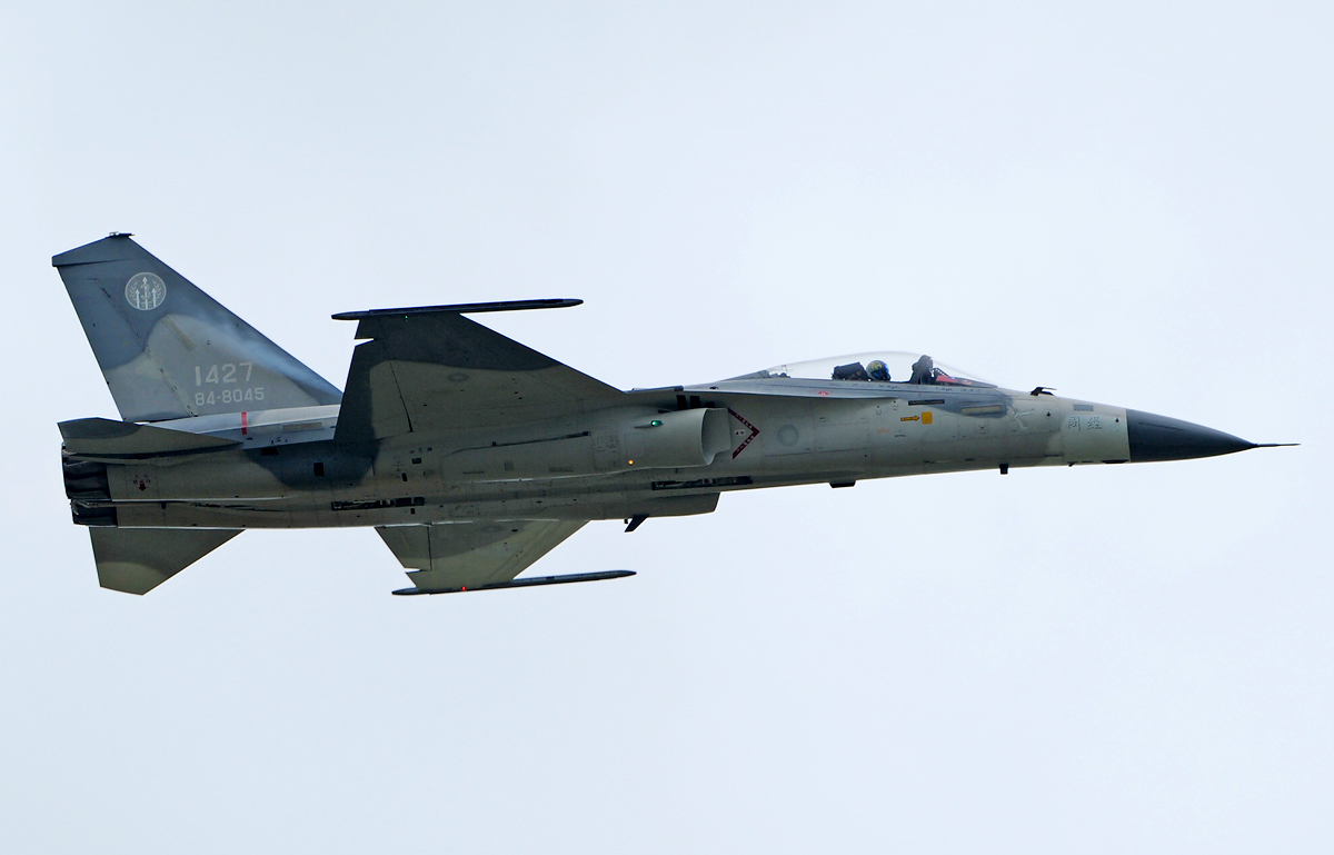 Republic of China Air Force AIDC F-CK-1A Ching Kuo